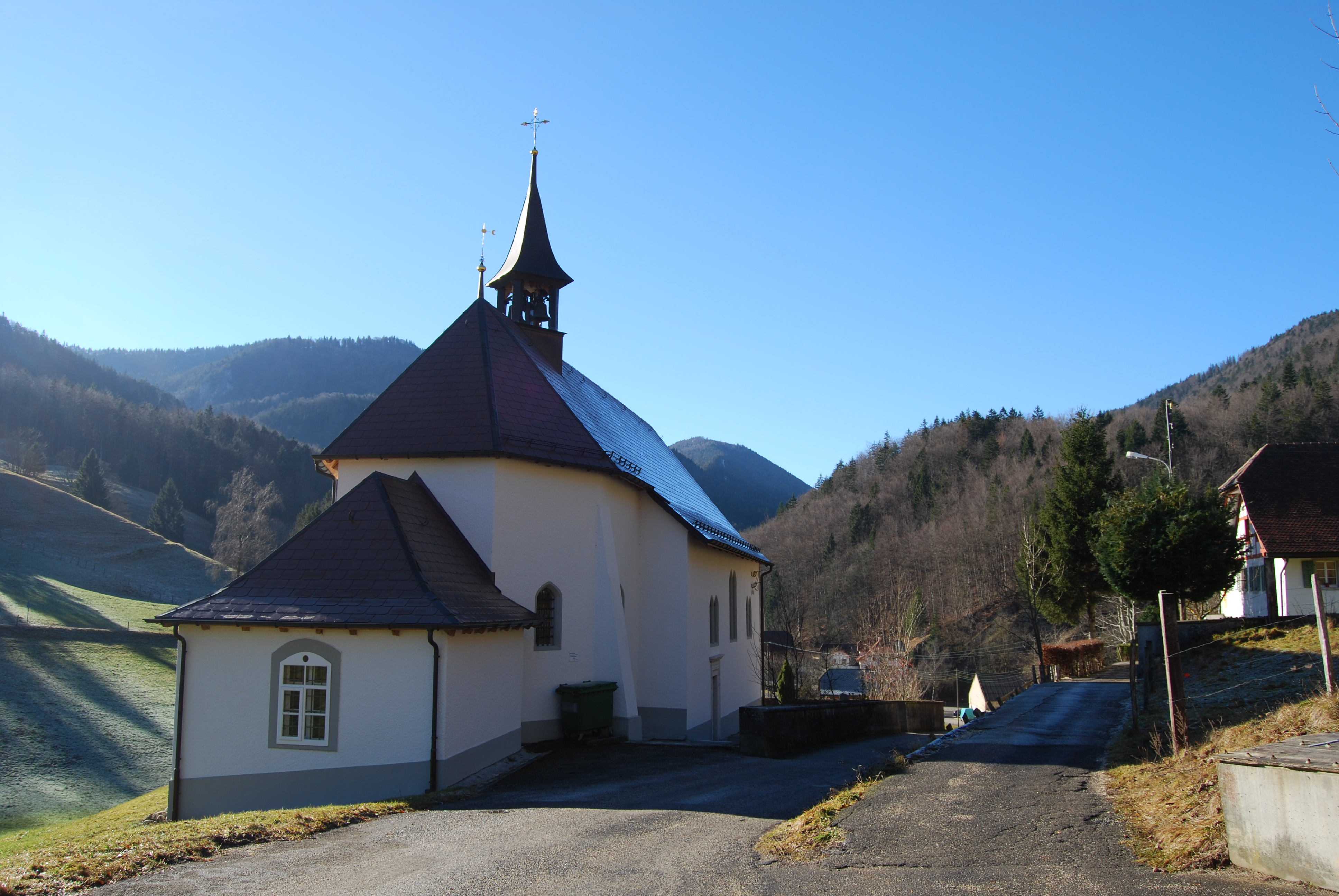 Church of Gänsbrunnen, canton of Solothurn, Switzerland